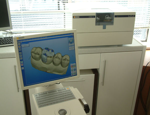 image of CEREC3D